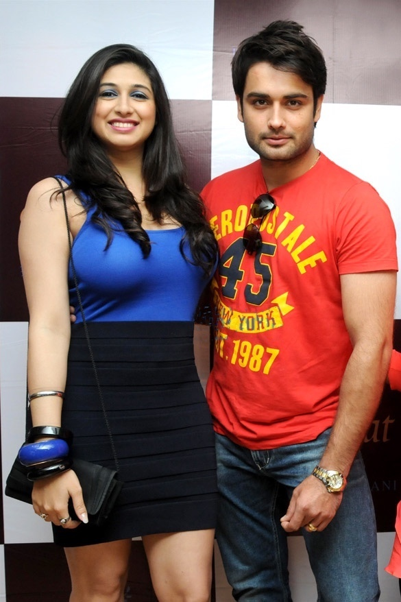 Dorabjee and Dsena at the launch of Samaira Tolani's chocolate boutique 'Shocolaat'